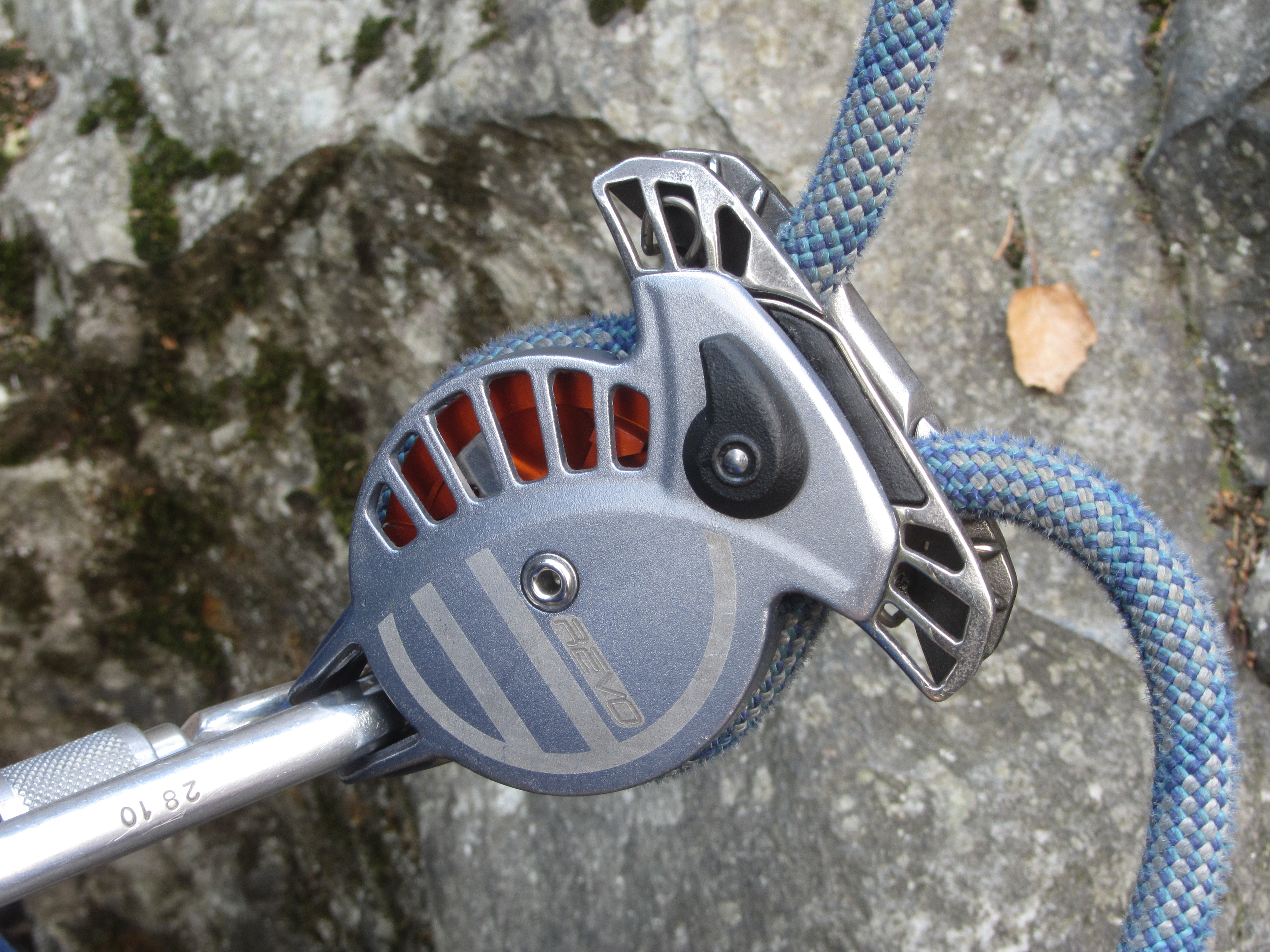 Climbing belay device "Revo" by Wild Country (Oberalp), in front of a rock with rope and carabiner